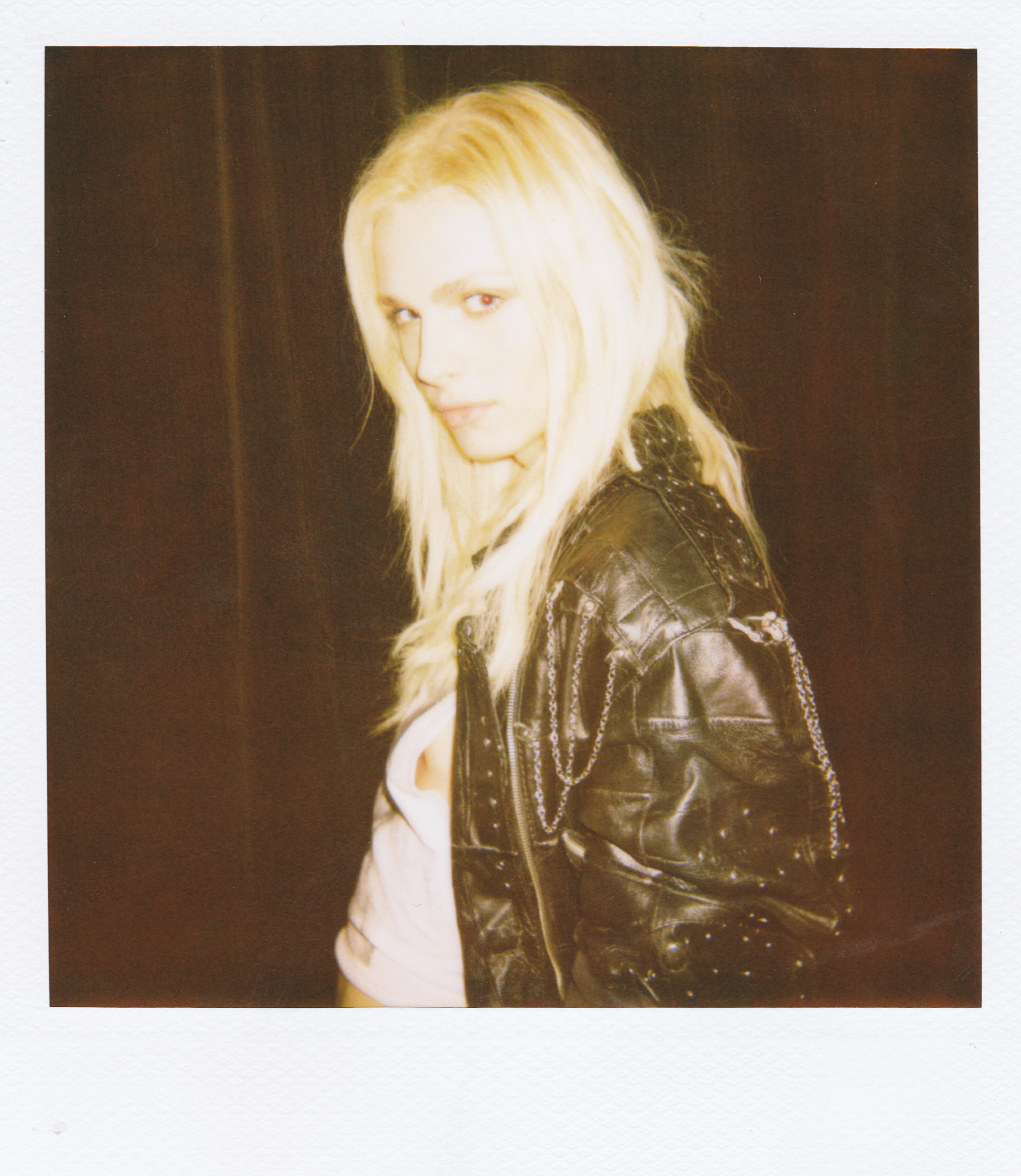 at Galore Pop-up party.